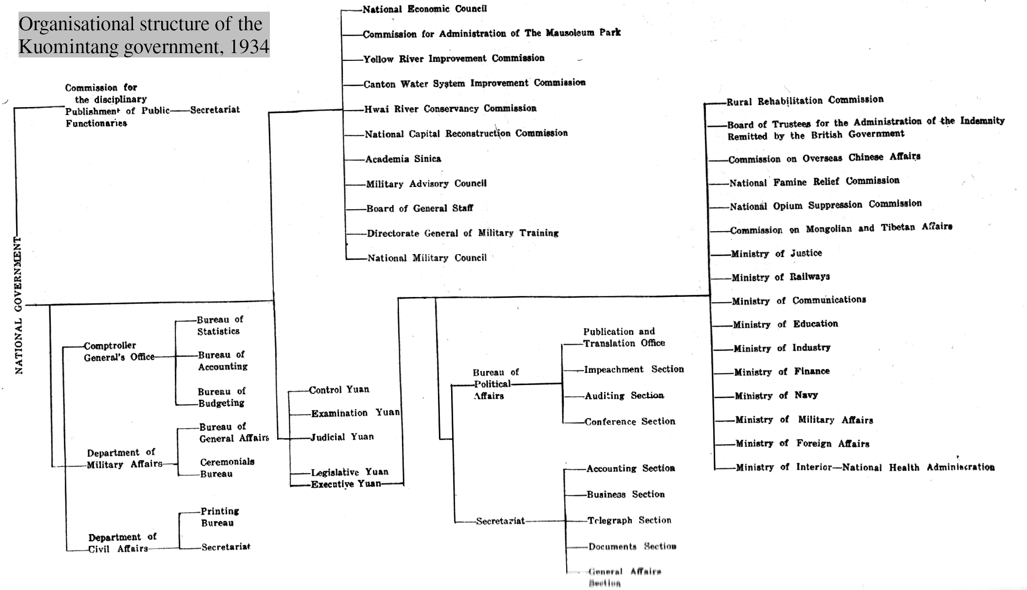 Organisational structure of the Kuomintang regime in Nanking (1928-37).